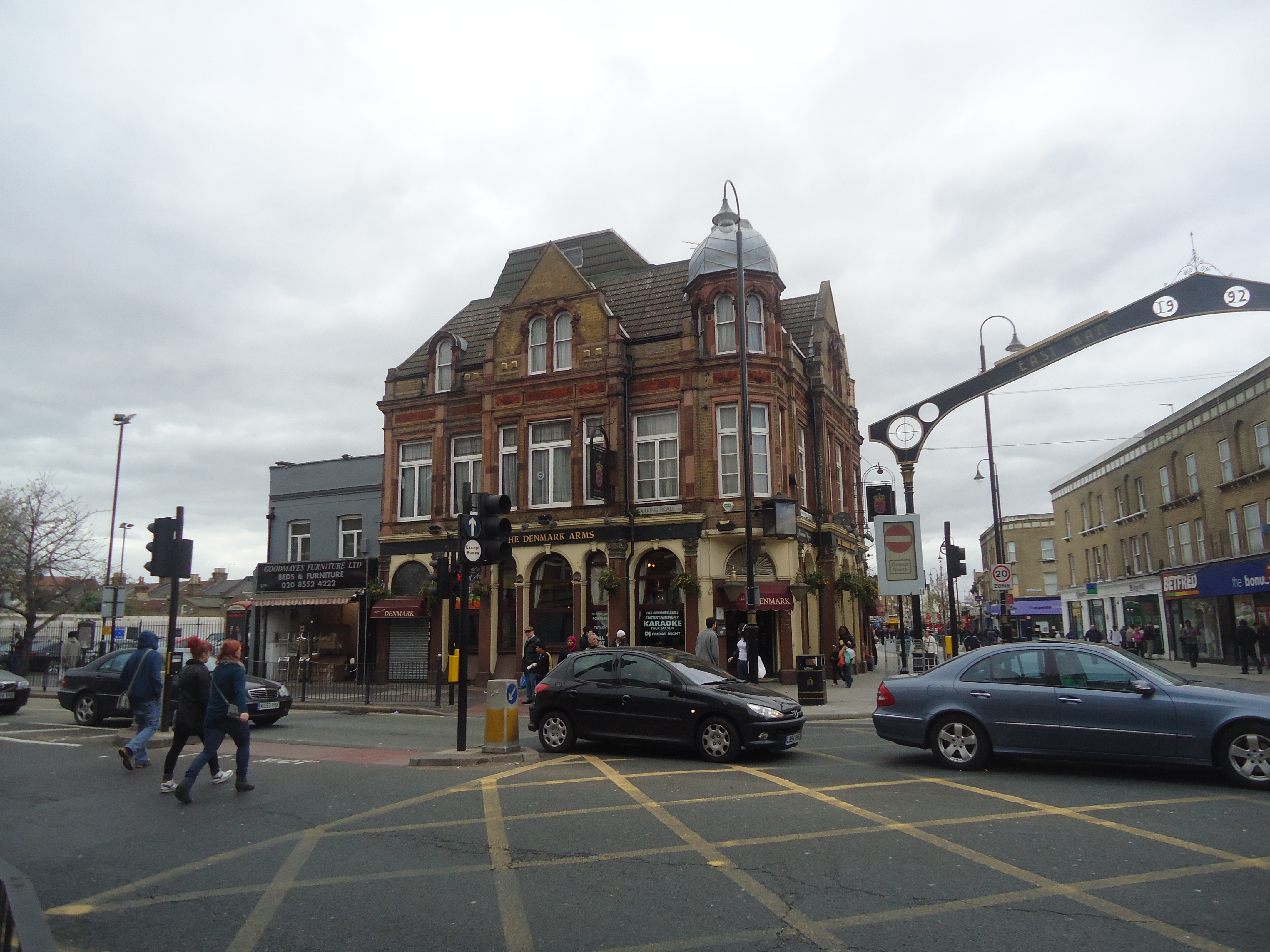 The Denmark Arms public house, East Ham